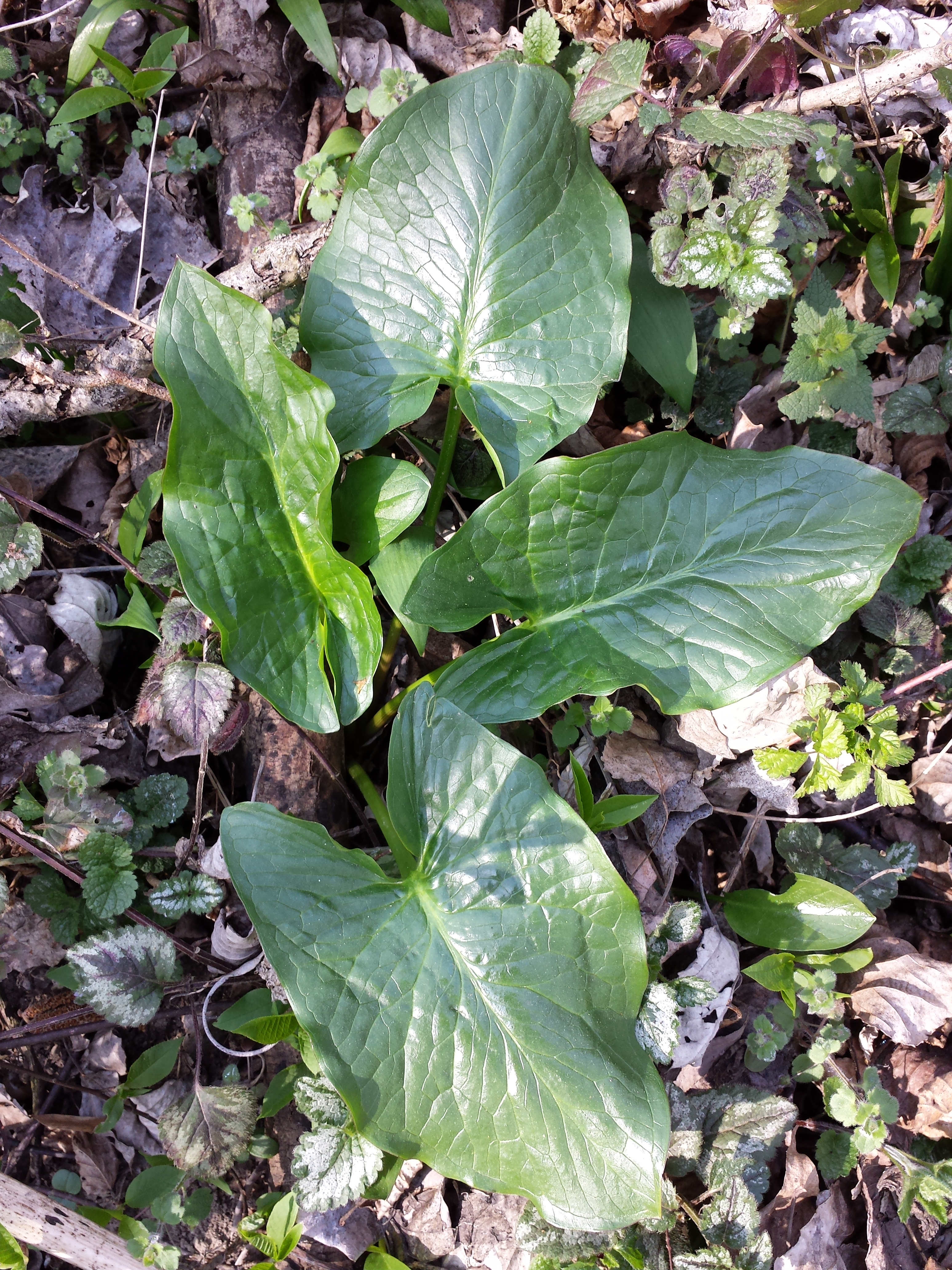 Leaves Taxon: Arum cylindraceum (sensu Fischer et al. EfÖLS 2008 ISBN 978-3-85474-187-9; det. M. A. Fischer 2014-03-22) Location: riparian forest near Traismauer, district Sankt Pölten-Land, Lower Austria - ca. 190 m a.s.l. Habitat: riparian forest